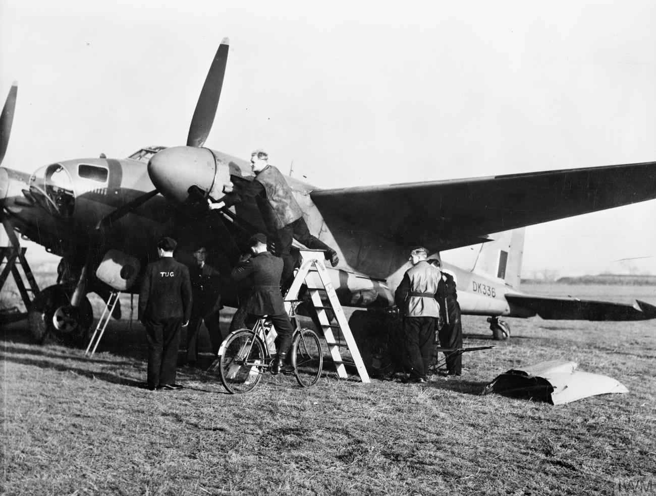 Operation OYSTER, the daylight attack on the Philips radio and valve works at Eindhoven, Holland, by No. 2 Group. Ground crews prepare De Havilland Mosquito B Mark IV, DK336, of No. 105 Squadron RAF for the raid at Marham, Norfolk. C 3298 Part of AIR MINISTRY SECOND WORLD WAR OFFICIAL COLLECTION RAFFPU